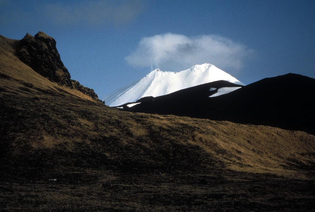 Mount Amukta, Alaska, USA